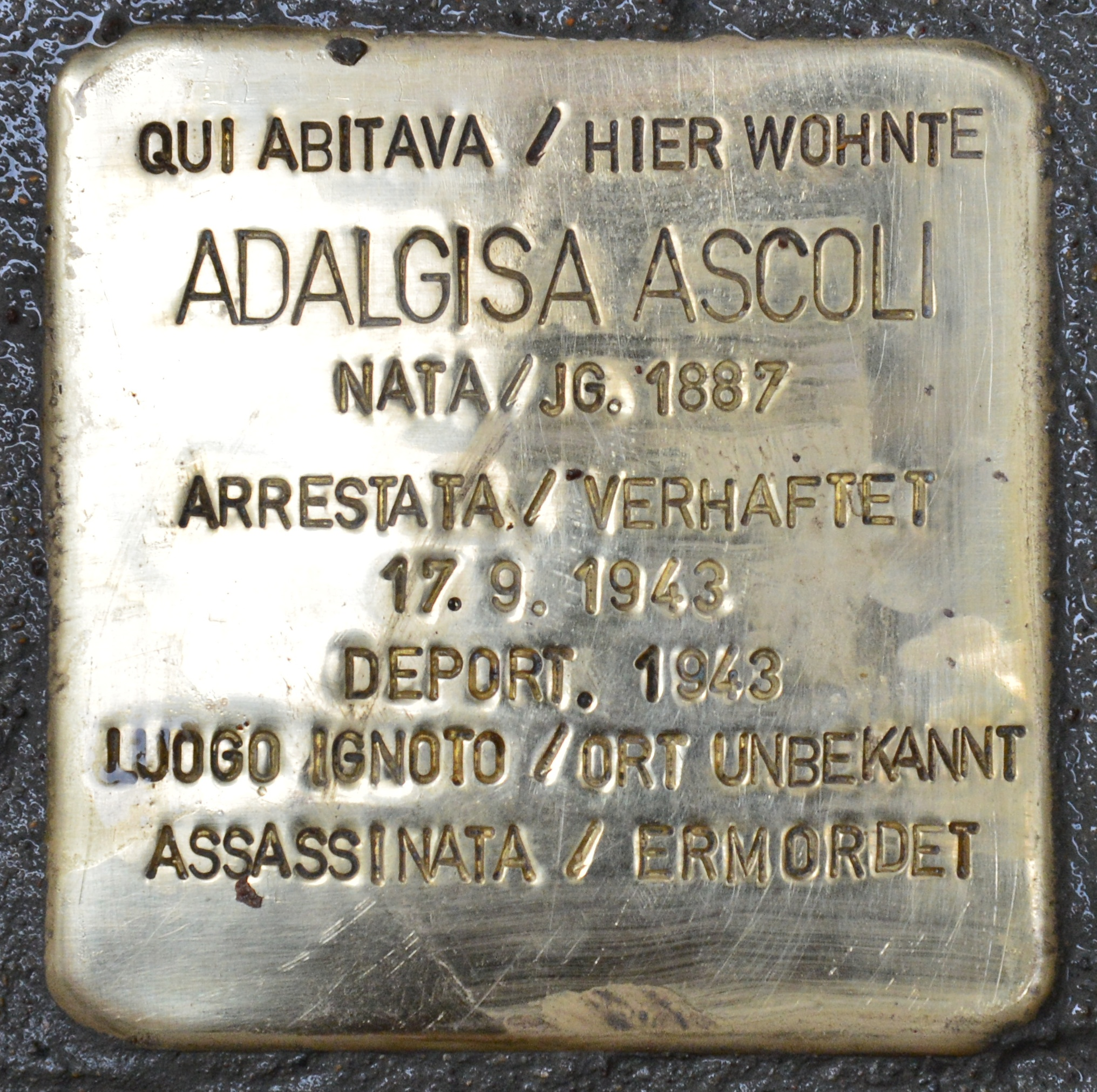 Stumbling Stone of Adalgisa Ascoli, placed in Bozen (South Tyrol)